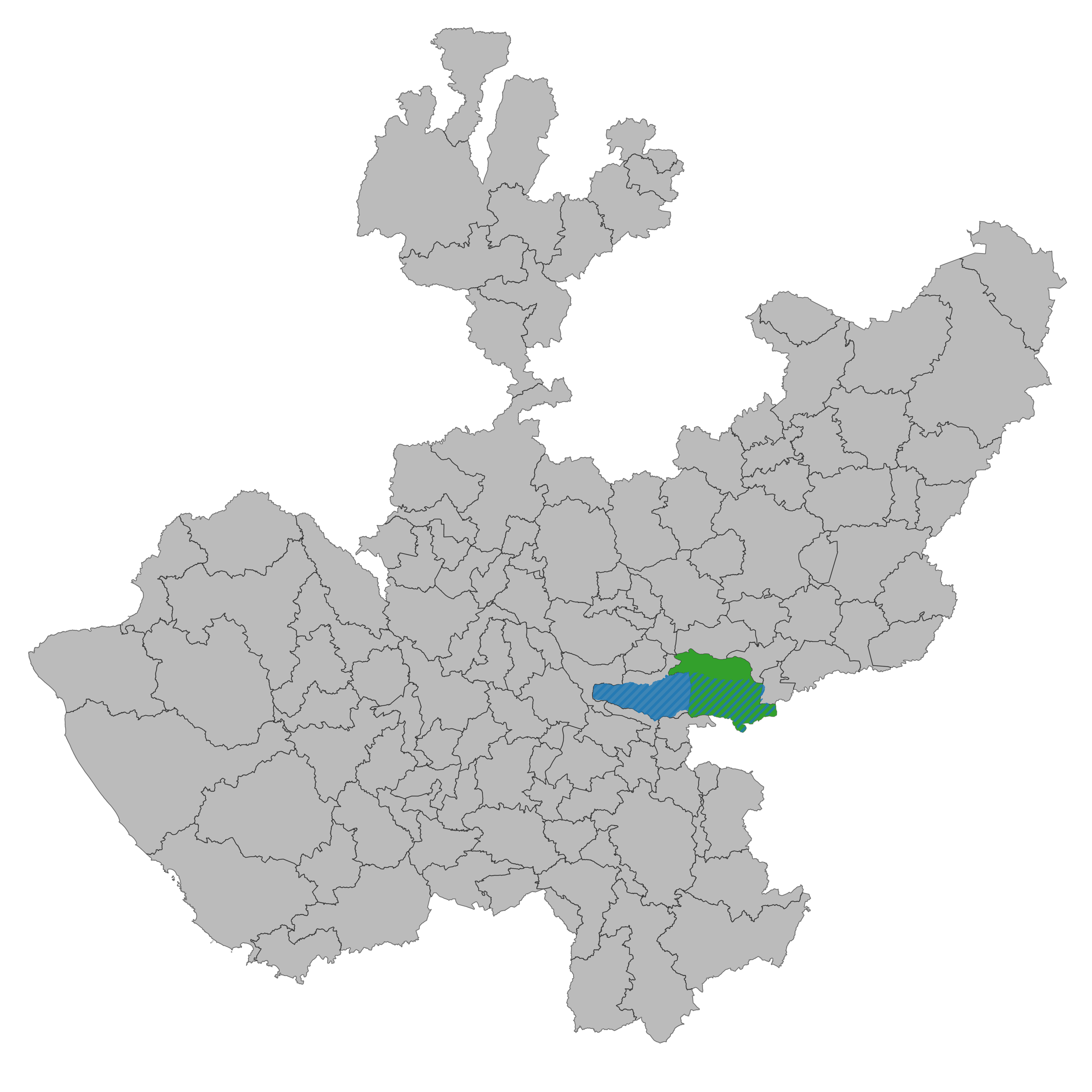 Municipality of Jalisco. Prepared with the software QGIS version 2.8.2 Wien & with information of SCINCE 2010 version 05/2013